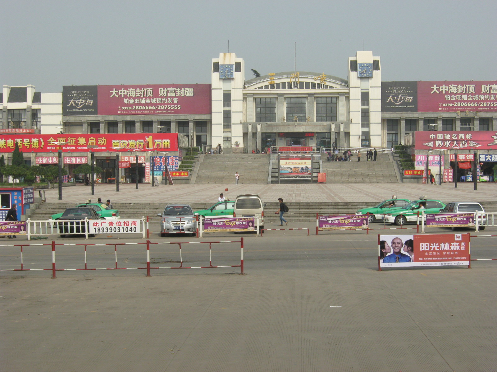 SanMenXia Rail Station